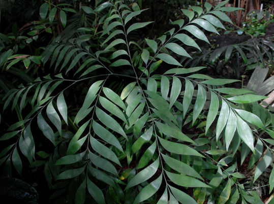 Bowenia spectabilis in Prague